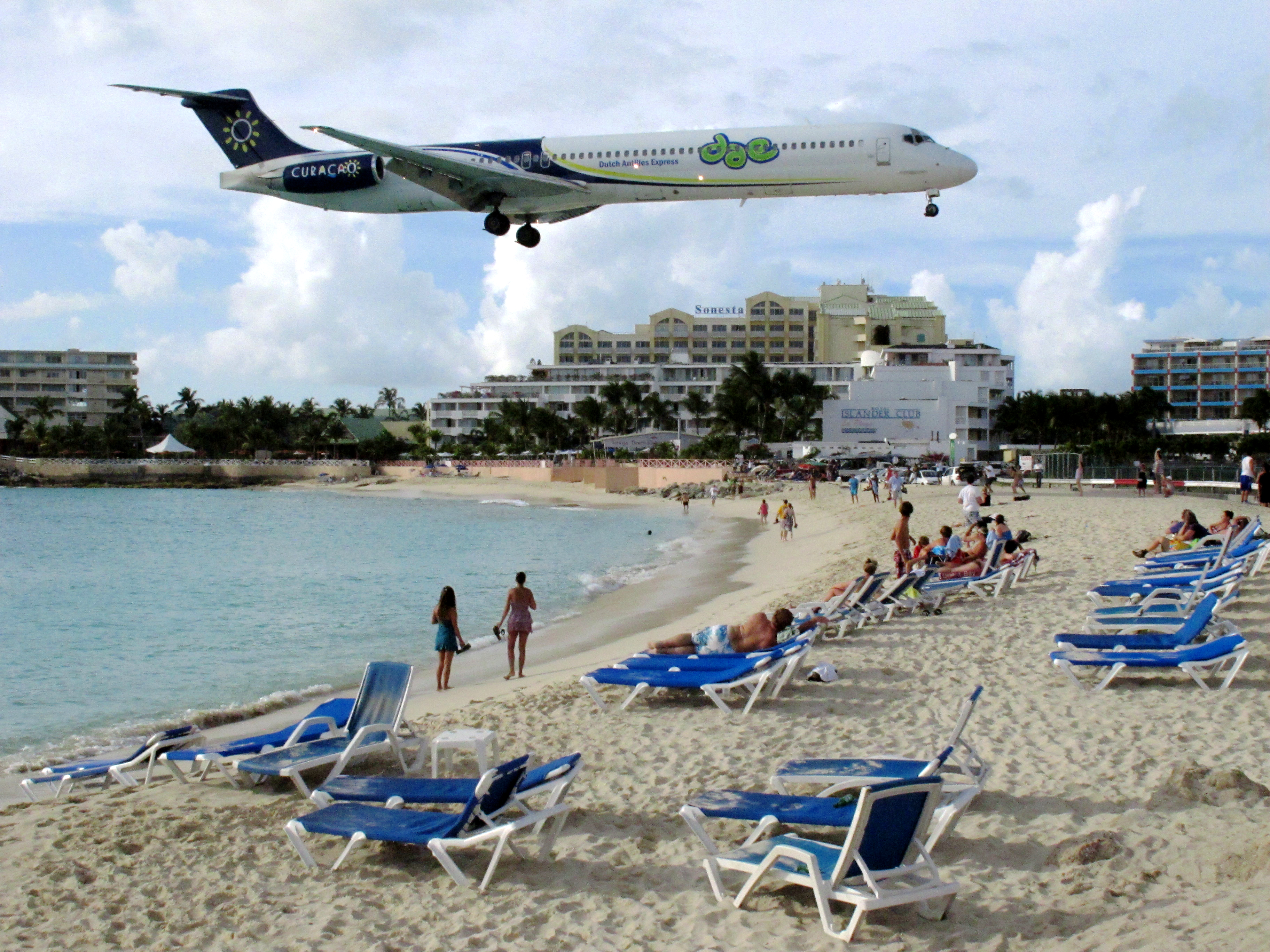 A small jet flying over Maho Beach in Sint Maarten